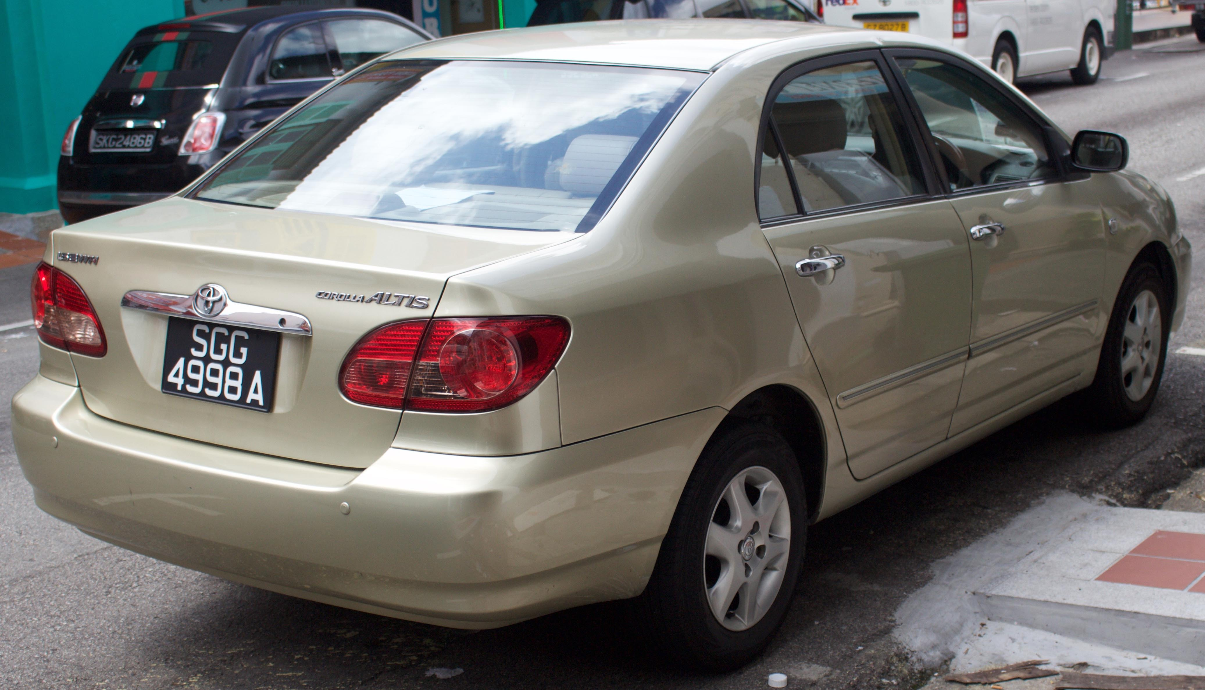 2006 Toyota Corolla Altis 1.6E VVT-i sedan. Photographed in Singapore. Vehicle registration enquiry resultsJurisdictionSingaporeRegistrationSGG4998AChassis codeMR053ZEC107119062Engine code3ZZ4564435Year of manufacture2006